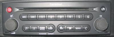 Front view of the CD-based Navigationsystem Renault Carminat 1 SH3 from April 2006, made by Harman Becker. The external Display is located in the dashboard